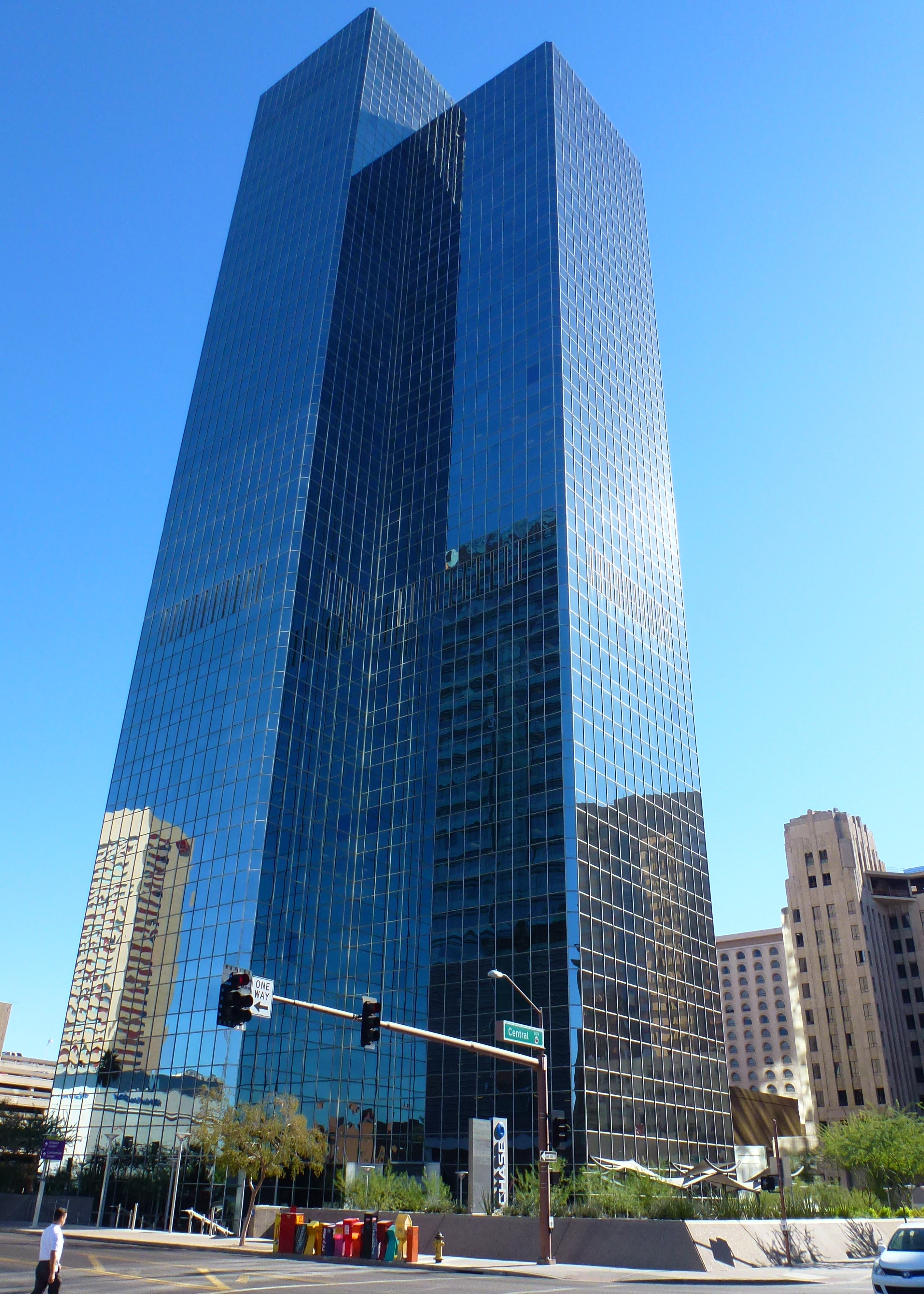 Chase Tower